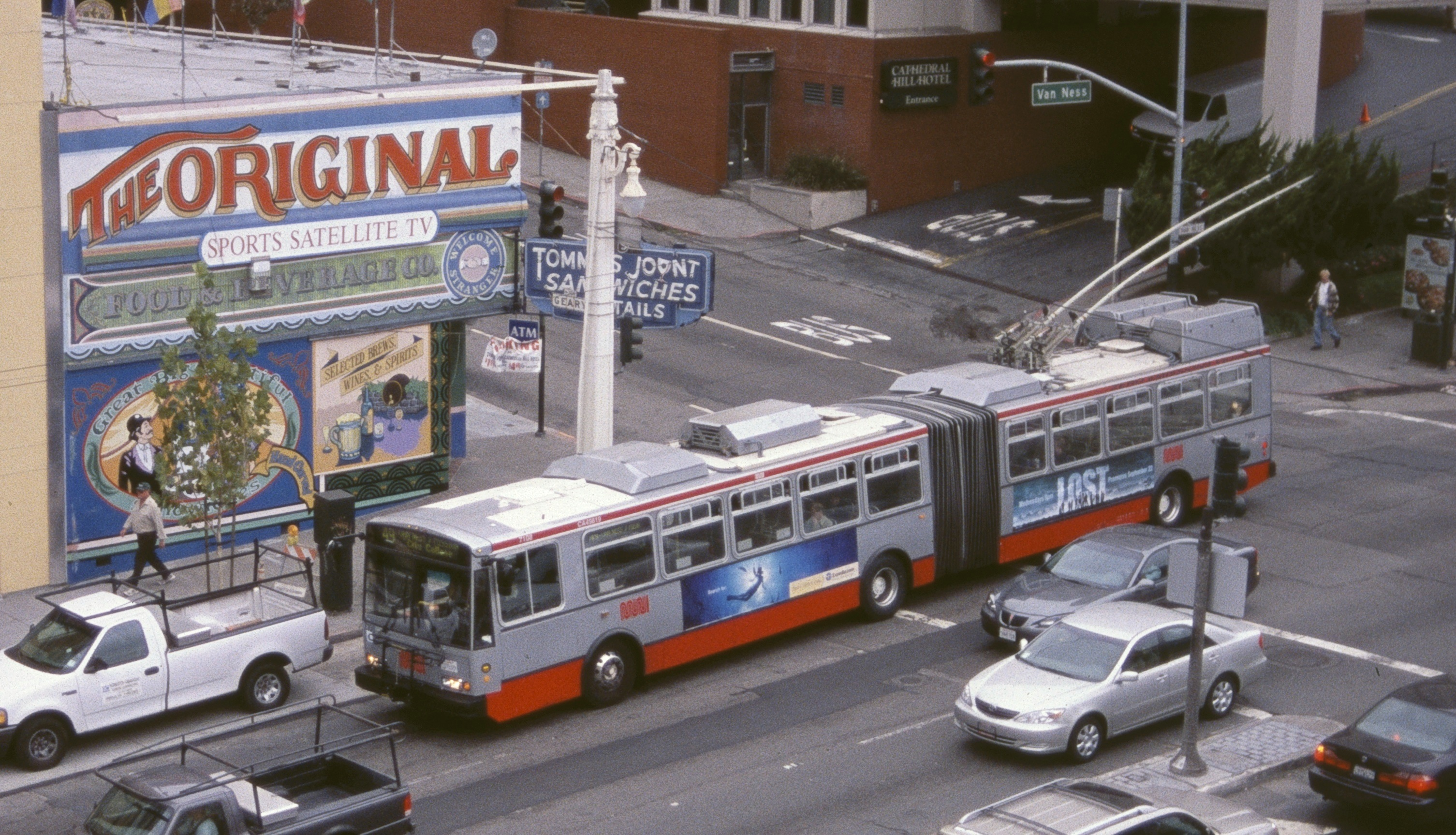 San Francisco Muni trolleybus 7108, a 2003 ETI (Škoda/AAI) 15TrSF, travels south on Van Ness Avenue at Geary Street, on route 49. (The photo was taken from a hotel room.)